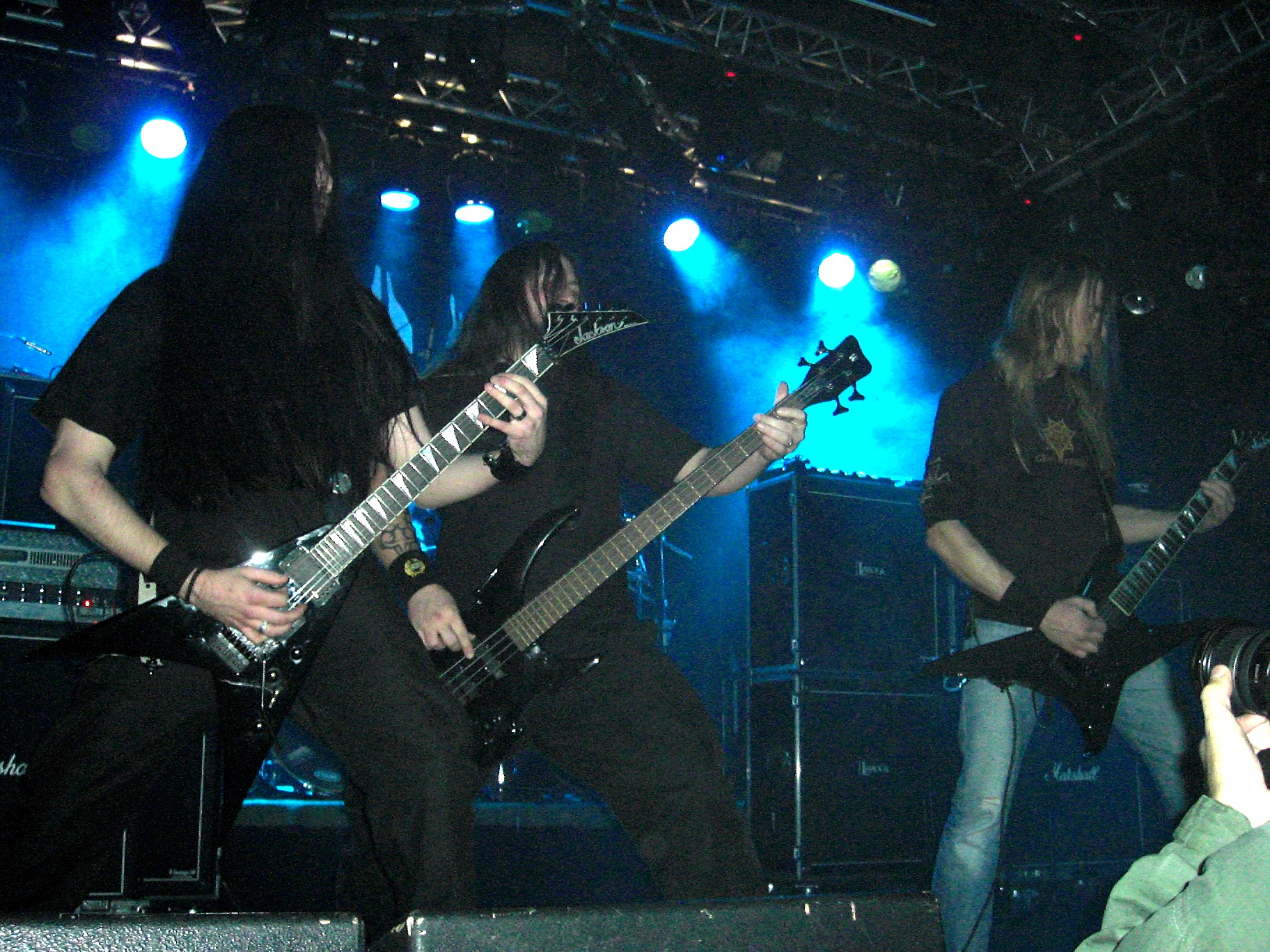 Swedish death metal band Grave, Klubben, Stockholm 2008